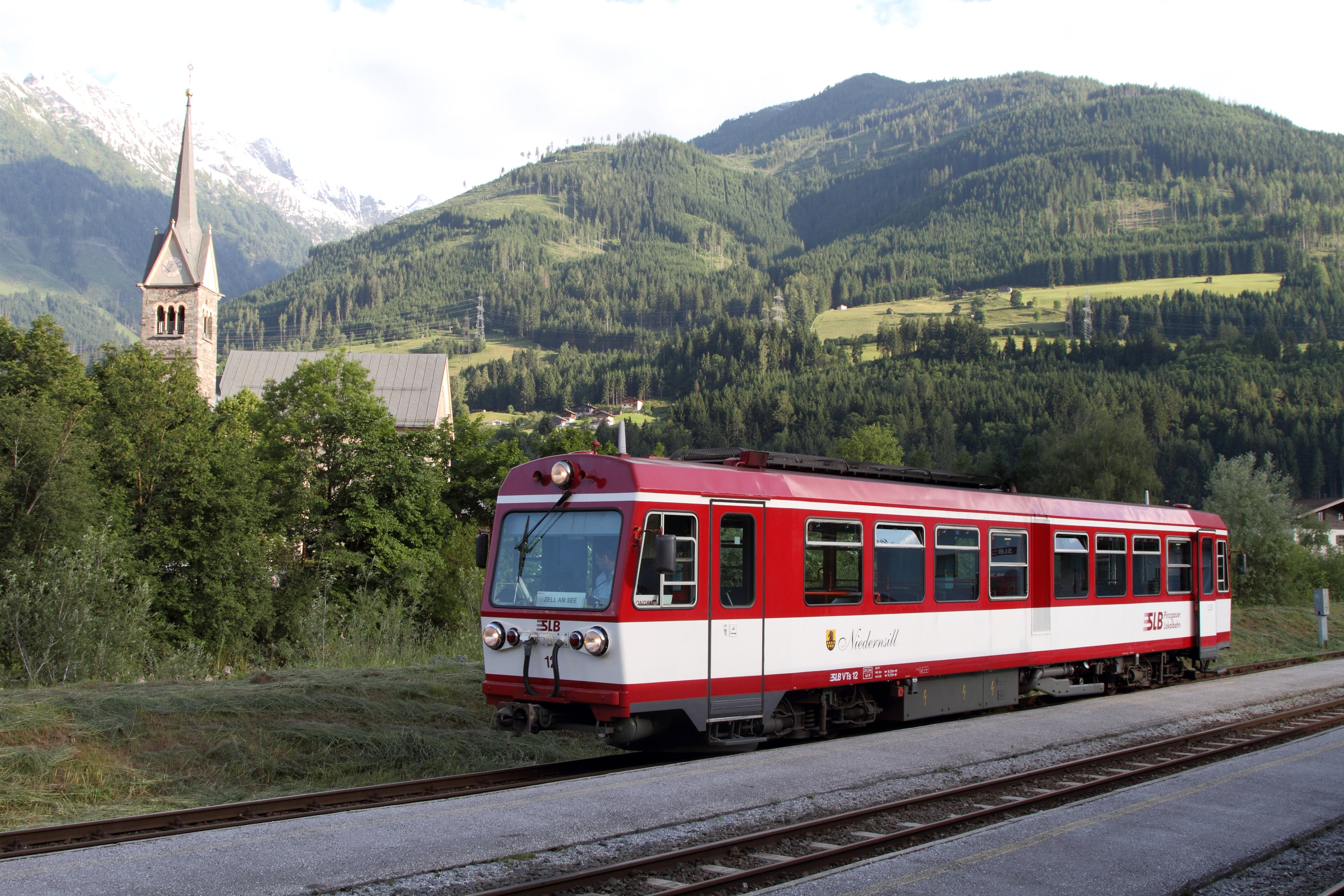 Railcar VTs 12 named "Niedernsill" in the station of the village of the same name.